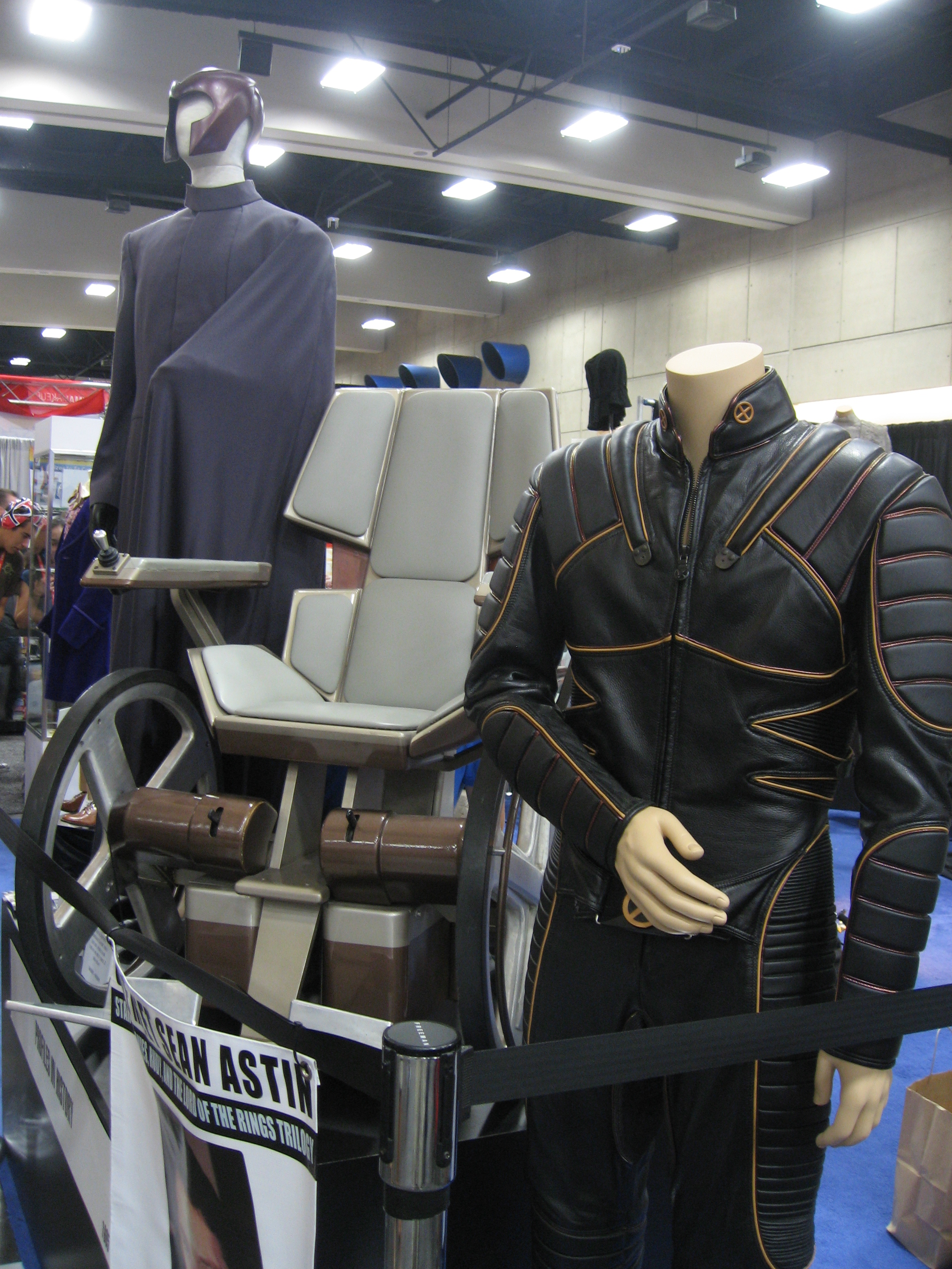 Costumes and props from X-Men films displayed at the 2012 Comic-Con International, San Diego.